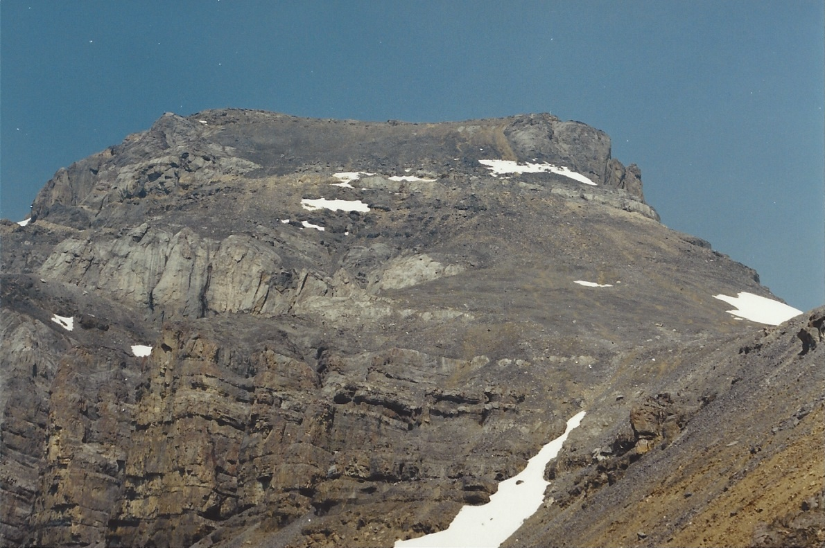 Mount Richardson - South slope, Slate Range, Banff National Park, Alberta Canada View of the southern slopes from the scrambling route above Hidden Lake